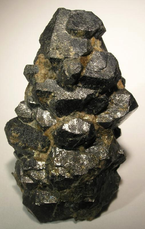 Uraninite Locality: Chestnut Flats Mine, Spruce Pine, Spruce Pine District, Mitchell County, North Carolina, USA (Locality at ) This specimen is a solid, complete-all-around stack of large uraninties to a 1 cm or slightly more in size. They have sharp form, moderate luster, and are unaltered. 4 x 2.4 x 2.1 cm